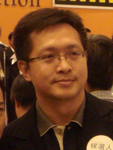 Hong Kong Legislative Councilor Tam Wai Ho